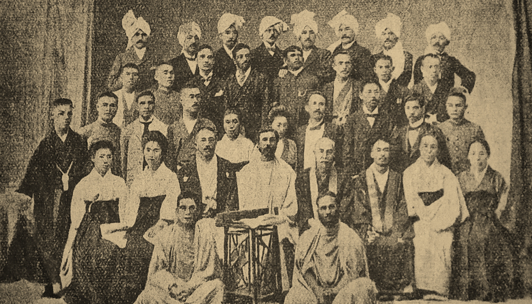 Srimath Anagarika Dharmapala (seated-centre) with Representatives from different Countries at a meeting at the Mahabodhi Society Headquarters in Calcutta.